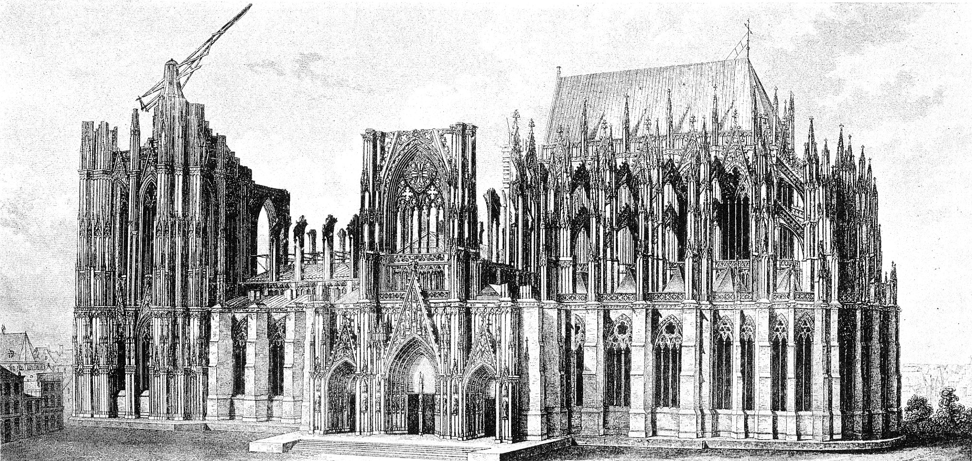 This is a scan of the historical document